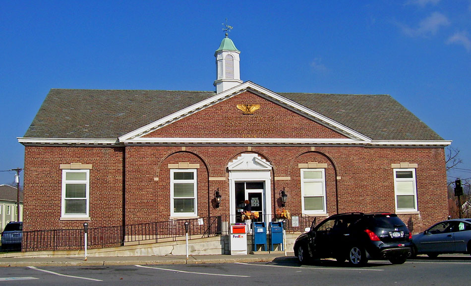 Photographed by Daniel Case 2006-11-11